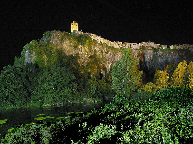 Nightscape of Castellfollit de la Roca